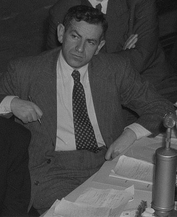 Original image description from the Deutsche FotothekProf. Dr. Samuel Mitja Rapoport